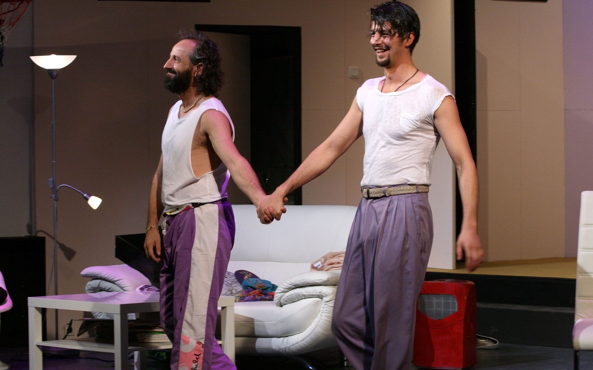 Reinhold G. Moritz and Otto Jaus after the public rehearsal of Ein ungleiches Paar, an adaption of Neil Simons play The Odd Couple. Summer theater festival at the city theater of Berndorf (Lower Austria).